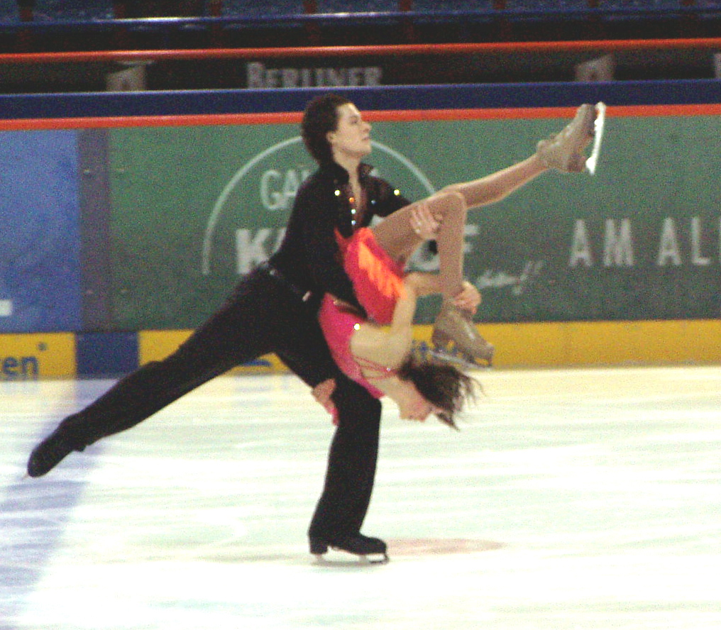 Rina Thieleke and Sascha Rabe at the original dance at the German championships 2006 in Berlin